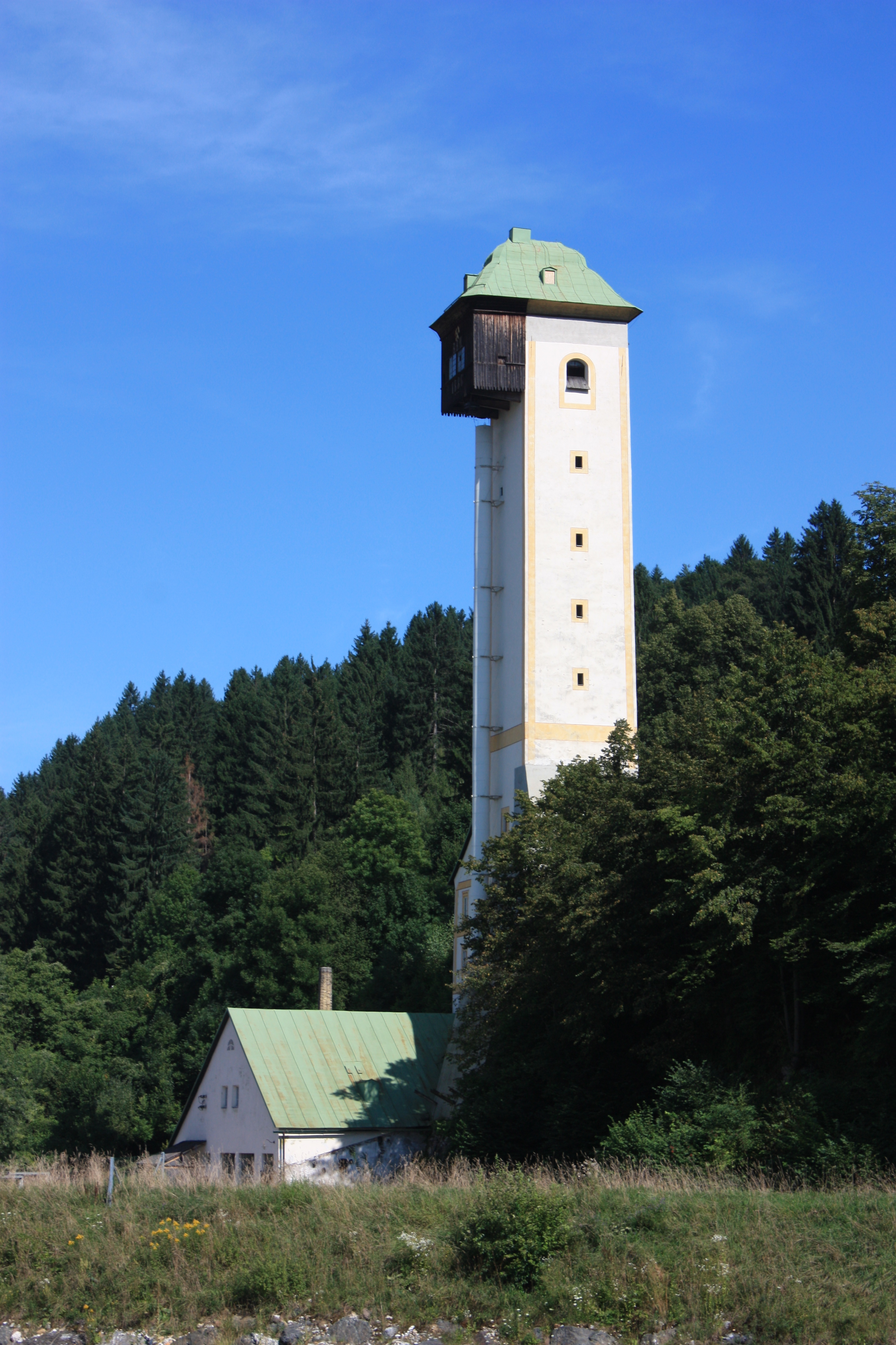 Shot tower Locality:Arnoldstein Community:Arnoldstein